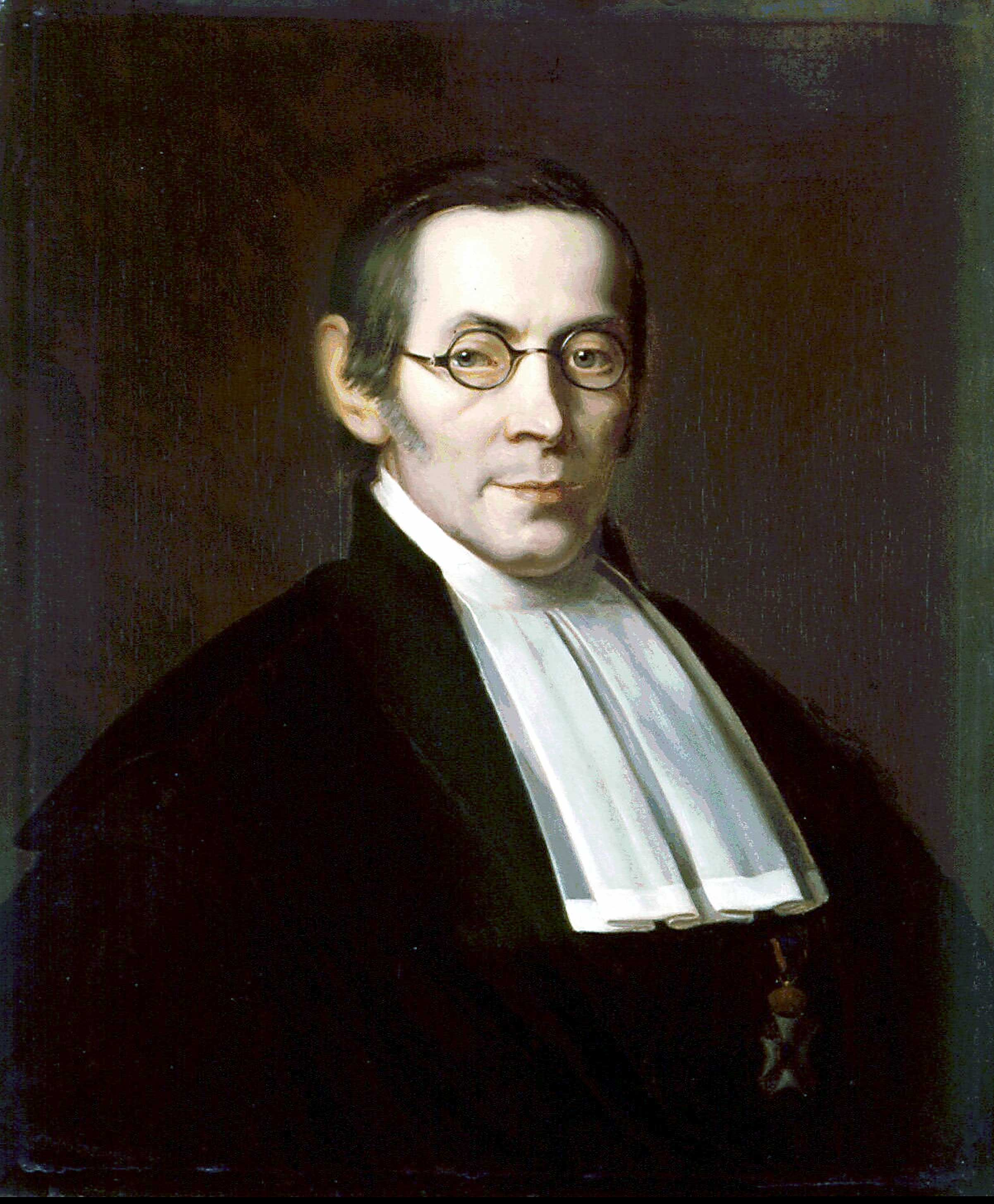 Henricus Egbertus Vinke (1794-1862) Dutch Reformed theologian